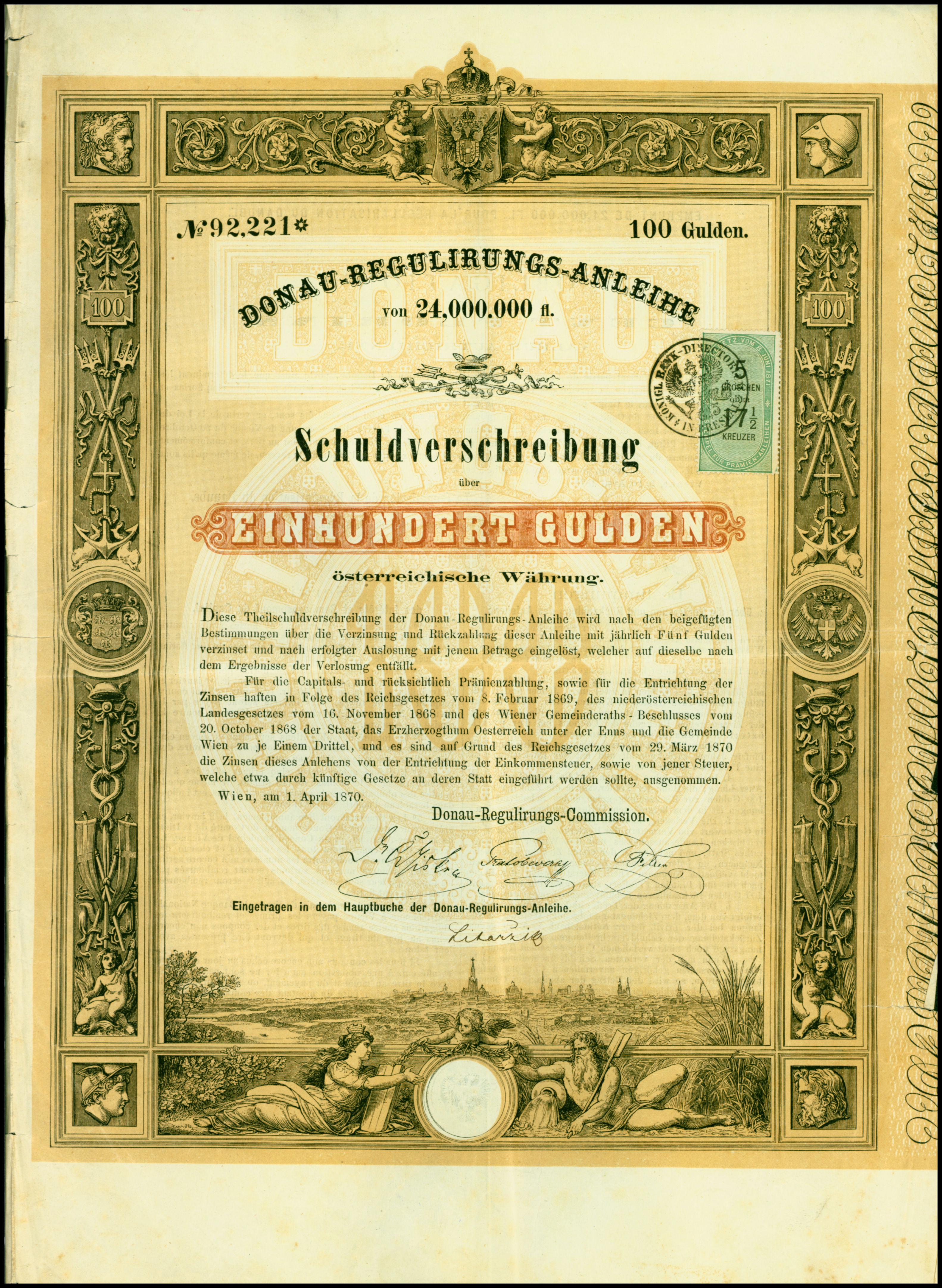 Bond of the Donau-Regulirungs-Commission, issued 1. April 1870